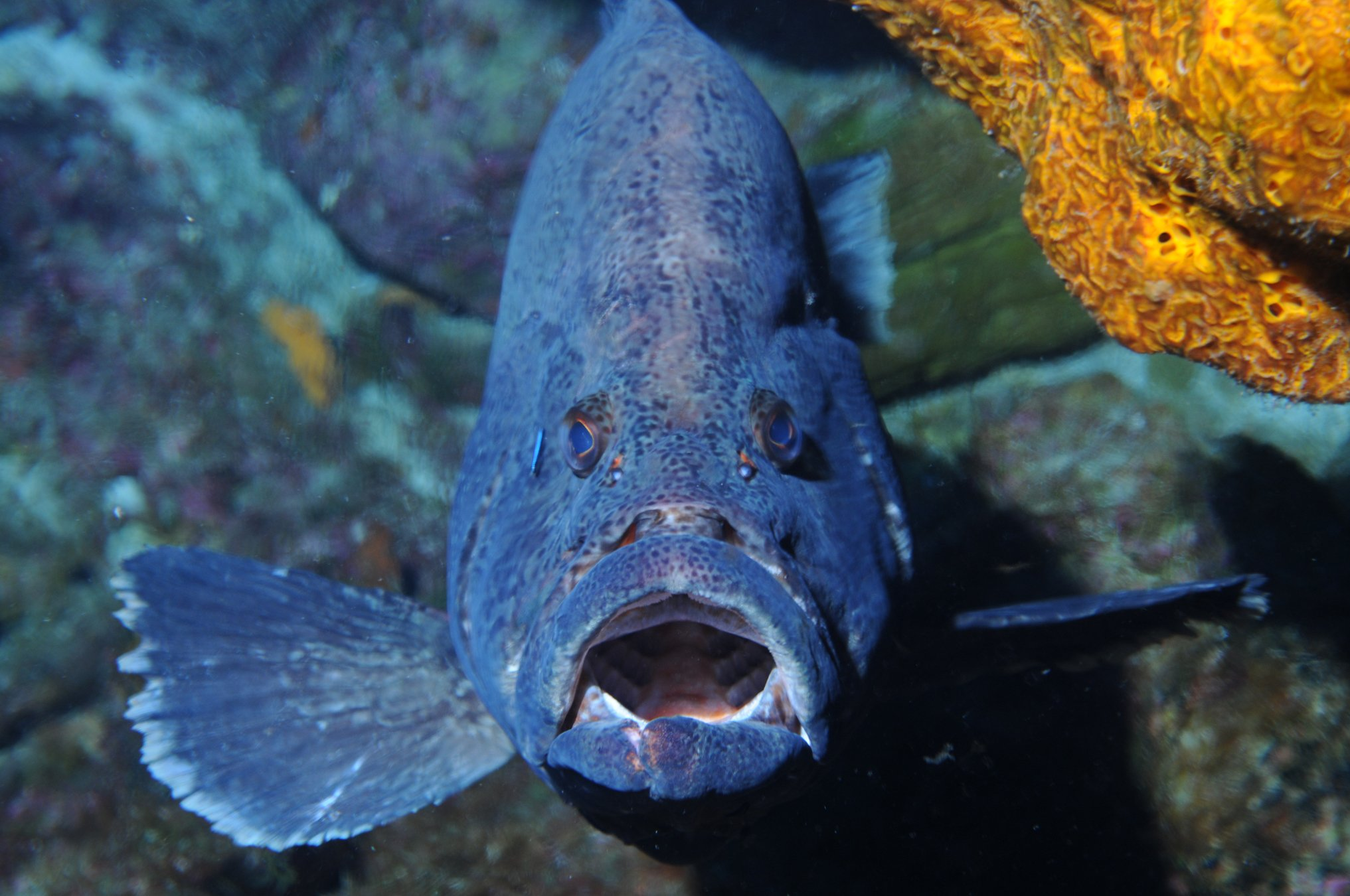 A marbled grouper (Dermatolepis inermis) being cleaned by a small neon goby. Gulf of Mexico, Geyer Bank.